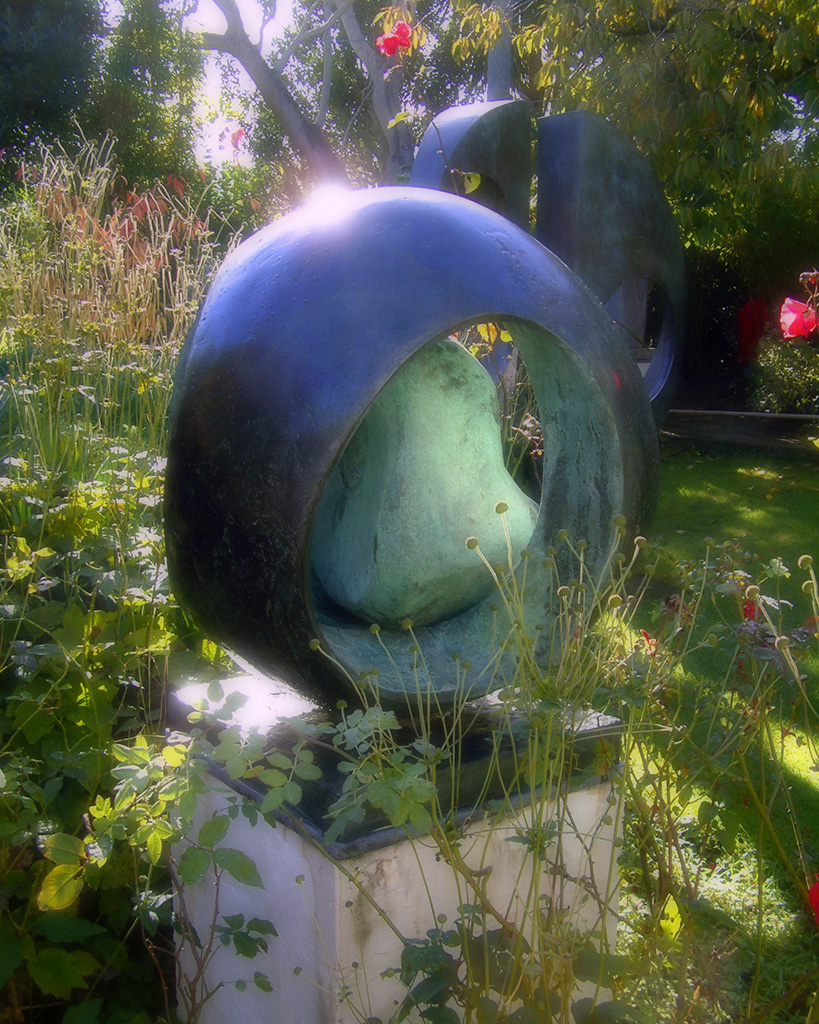 Barbara Hepworth: Sphere with Inner Form, at Trewyn Garden, St Ives.